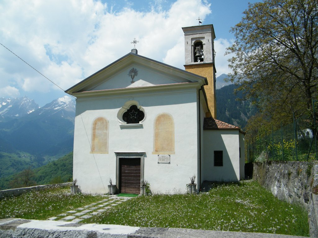 Church of St John the Baptist. Sommaprada of Lozio, Val Camonica